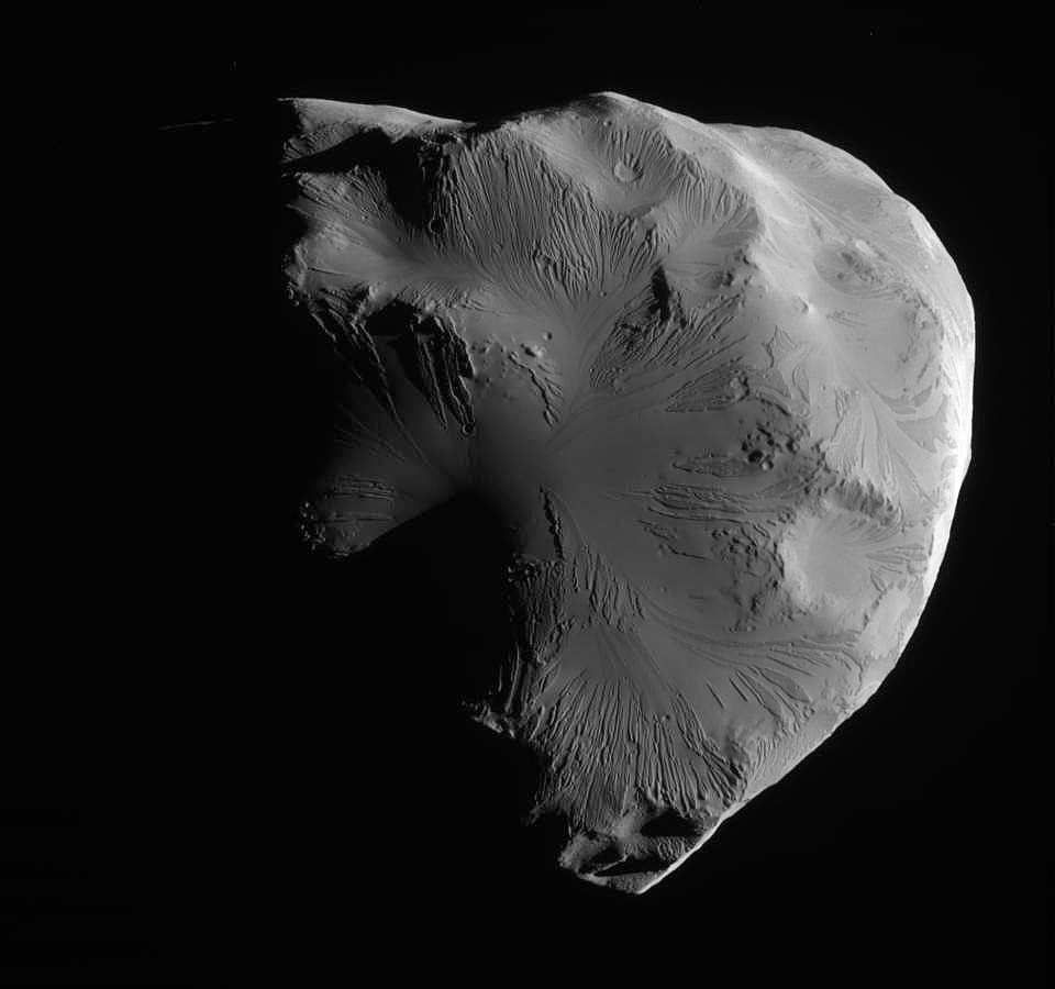 This raw, unprocessed image of Saturn's moon Helene was taken by Cassini on 18 June 2011 and received on Earth 20 June 2011. Helene is a trojan moon of Dione. It leads Dione by 60 degrees in their shared orbit. The view looks toward the leading hemisphere of Helene (33 kilometers, 21 miles across). North on Helene is towards the top. The camera was pointing toward Helene, and the image was taken using the CL1 and CL2 filters. The image has not been validated or calibrated. A validated/calibrated image will be archived with the Planetary Data System in 2012. The Cassini Solstice Mission is a joint United States and European endeavor. The Jet Propulsion Laboratory (JPL), a division of the California Institute of Technology in Pasadena, manages the mission for NASA's Science Mission Directorate, Washington, D.C. The Cassini orbiter was designed, developed and assembled at JPL. The imaging team consists of scientists from the US, England, France, and Germany. The imaging operations center and team lead (Dr. C. Porco) are based at the Space Science Institute in Boulder, Colorado. For more information about the Cassini Solstice Mission visit and The original NASA image has been modified by cropping, sharpening and lightening shadows.